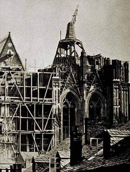 Demolition of the 14th century wooden crane on top of the south tower of Cologne Cathedral, early March, 1868. Photograph most likely by Thomas Creifelds (1815-1875) or his son Theodor Johann Hubertus Creifelds (Coblenz 1835 or 1839-1902 Cologne)